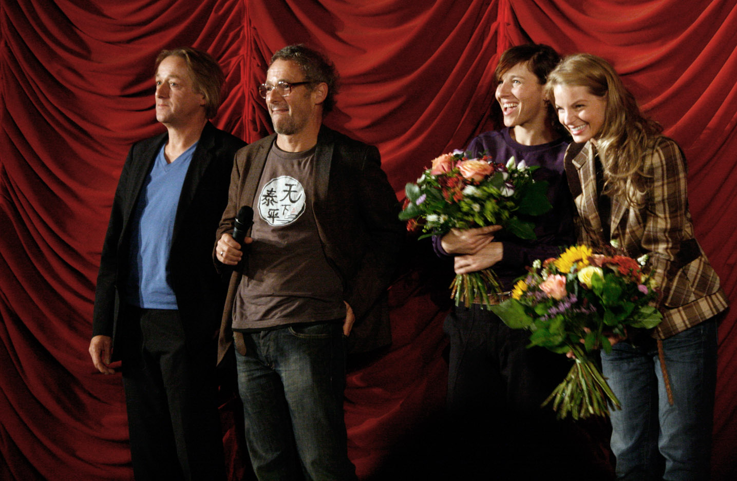 Yvonne Catterfeld, Meret Becker, Dani Levy and Markus Hering at the Austrian premiere of the movie Das Leben ist zu lang (Life is to long) at the Gartenbaukino in Vienna.